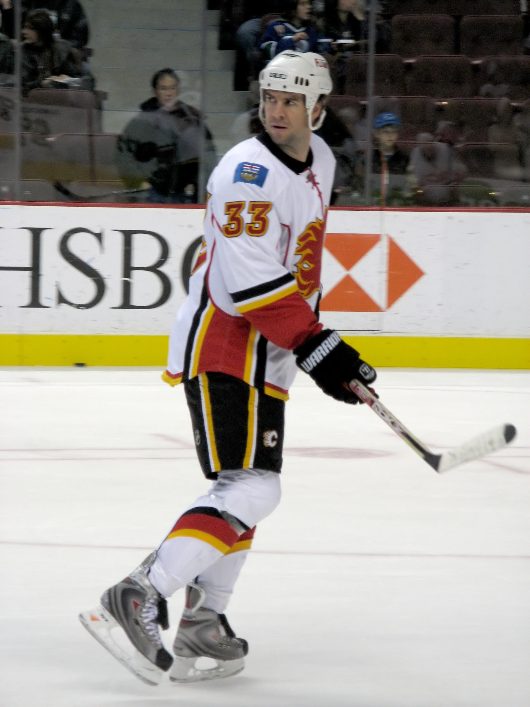 Adrian Aucoin during a pre-game warm-up at GM Place